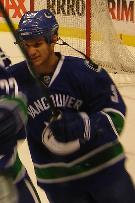 Vancouver Canucks defenceman Kevin Bieksa warming up on March 15, 2009, prior to a game against the Colorado Avalanche.